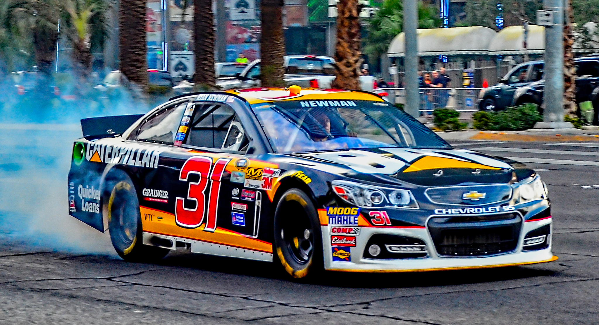 Ryan Newman, nicknamed "Rocket Man", is an American professional stock car racing driver. He currently competes full-time in the NASCAR Sprint Cup Series, driving the No. 31 Chevrolet SS. Nascar Victory Lap 2015 The Strip, Las Vegas TDelCoro December 3, 2015